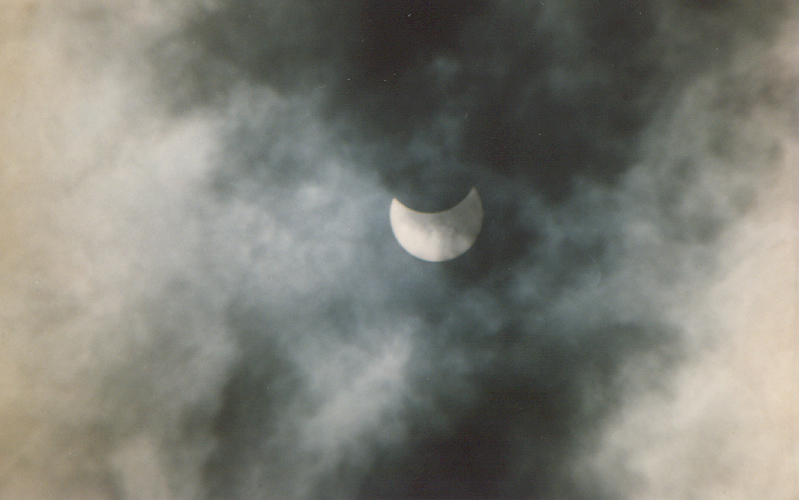 Solar eclipse of July, 11th, 1991, partial phase just before totality. Taken with 35 mm camera and digitally transferred. Location: Playas del Coco, Guanacaste, Costa Rica.